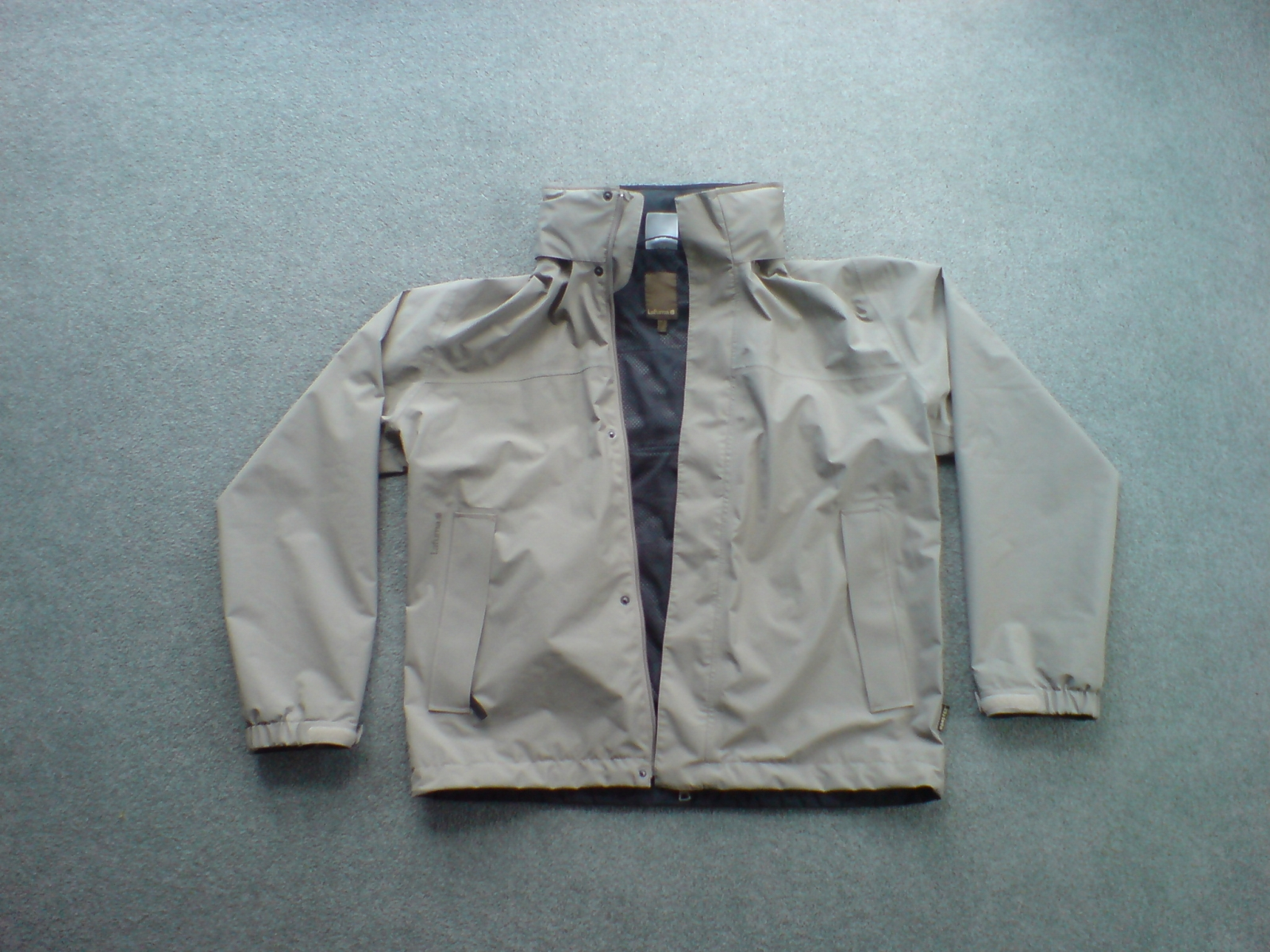 A windbreaker with the collapsible hood stowed.